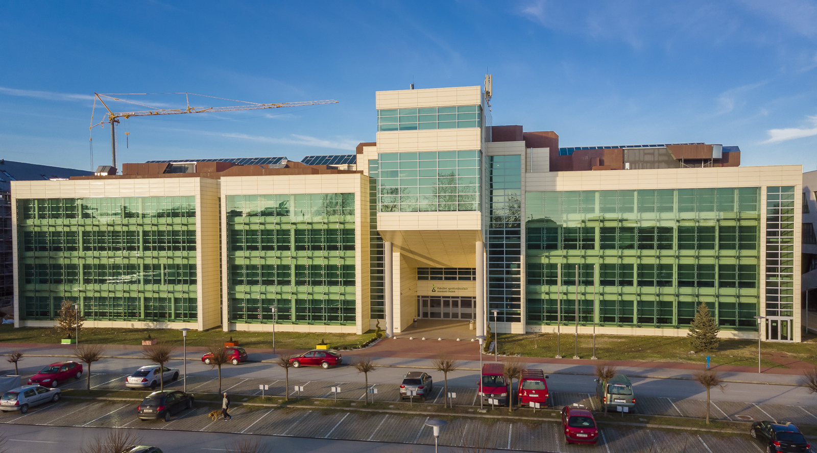 Fakultet agrobiotehničkih znanosti Osijek